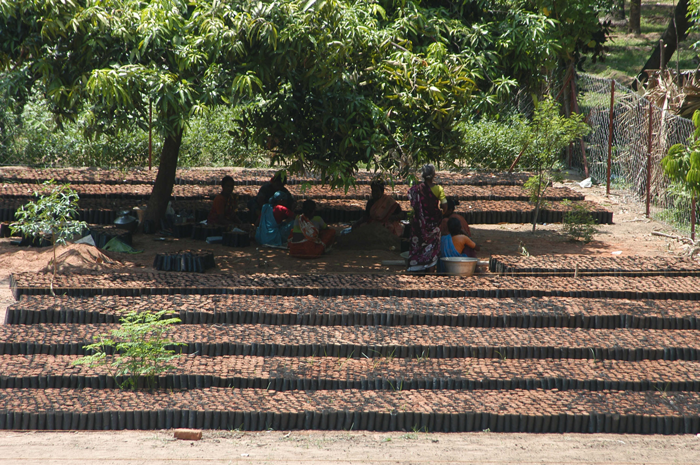 Photograph of ProjectGreenHands nursery